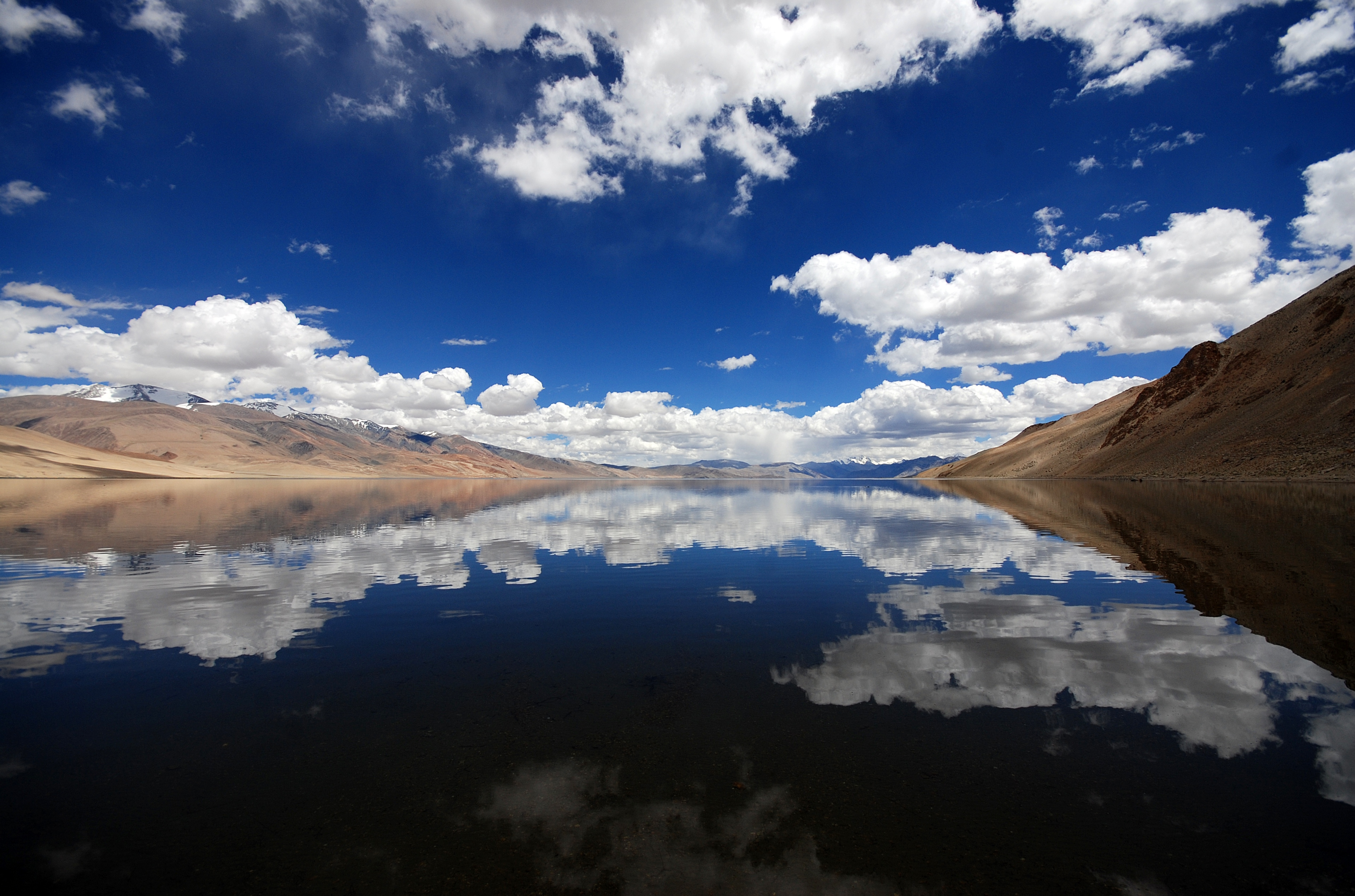 Tso Moriri Lake, Korzok, Ladakh, Jammu and Kashmir, India